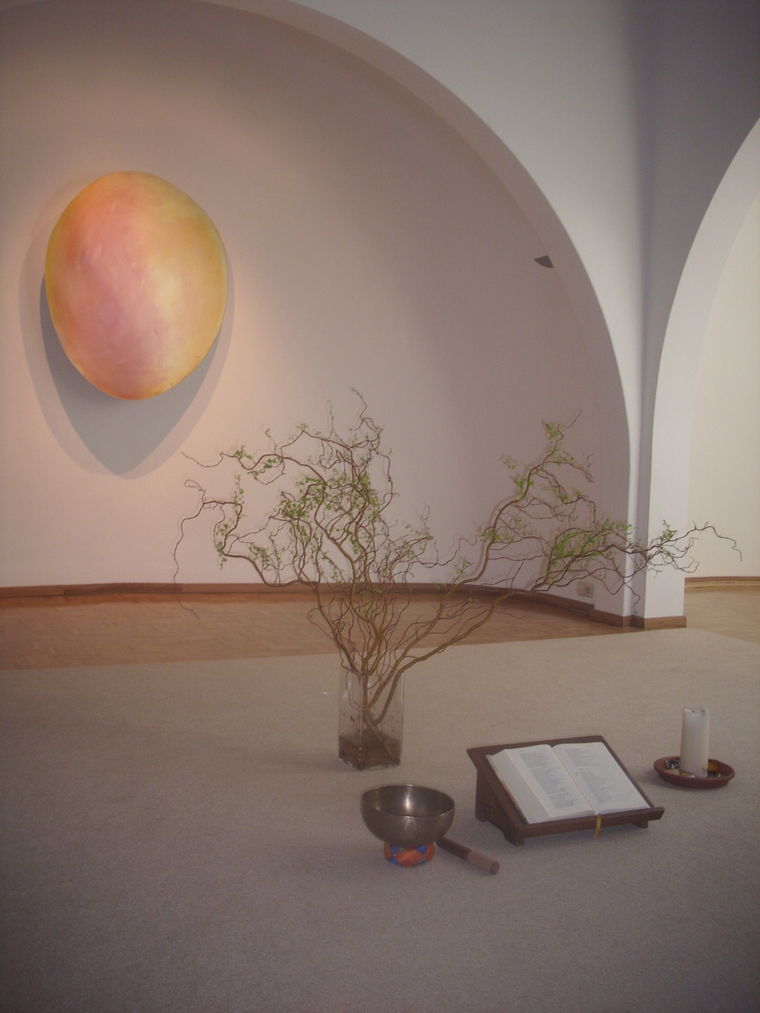 Een kamer voor reflectie, Ignatiushuis, Amsterdam